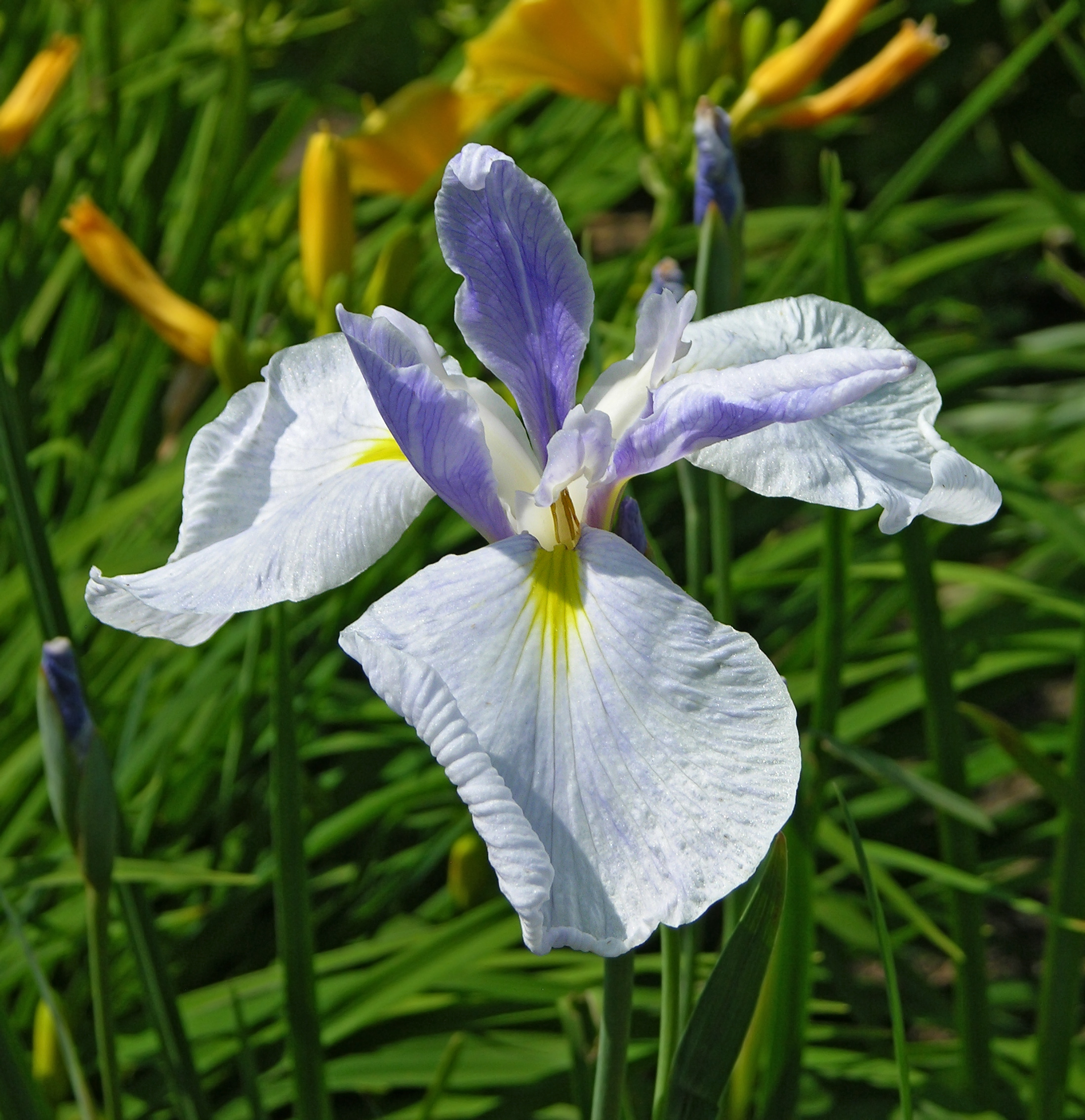 Picture of an identified Irisen (Iris en sp.) flower. Photo taken in Bed 3 of the Pond garden at the Chanticleer Garden. The species is now identified by a botanist and Iris collector as Iris spuria. Iris spuria is one of several species planted in that bed. These are the species that were planted in the location: Iris spuria